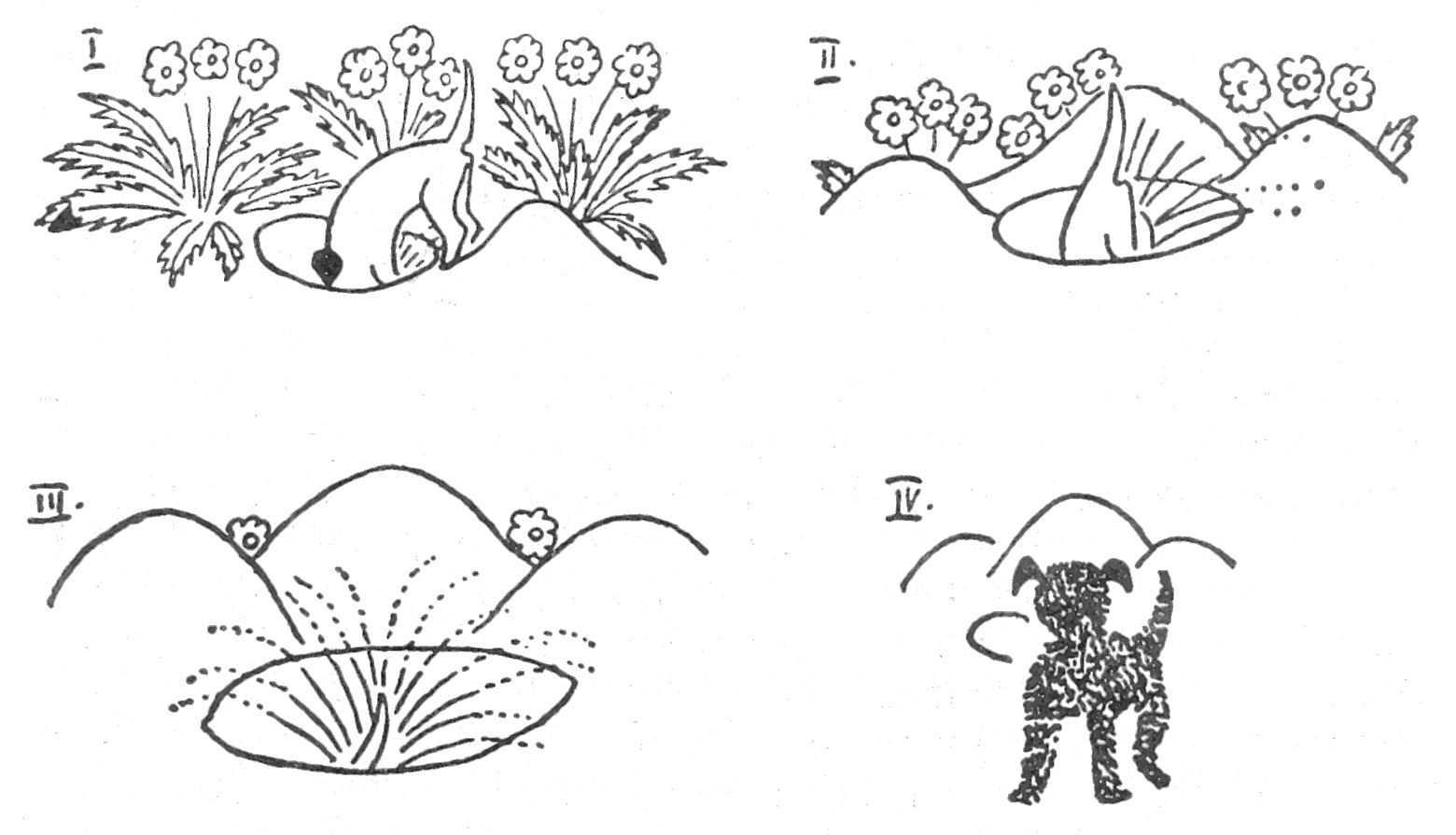 Drawing by Karel Čapek from the book "Dášeňka"